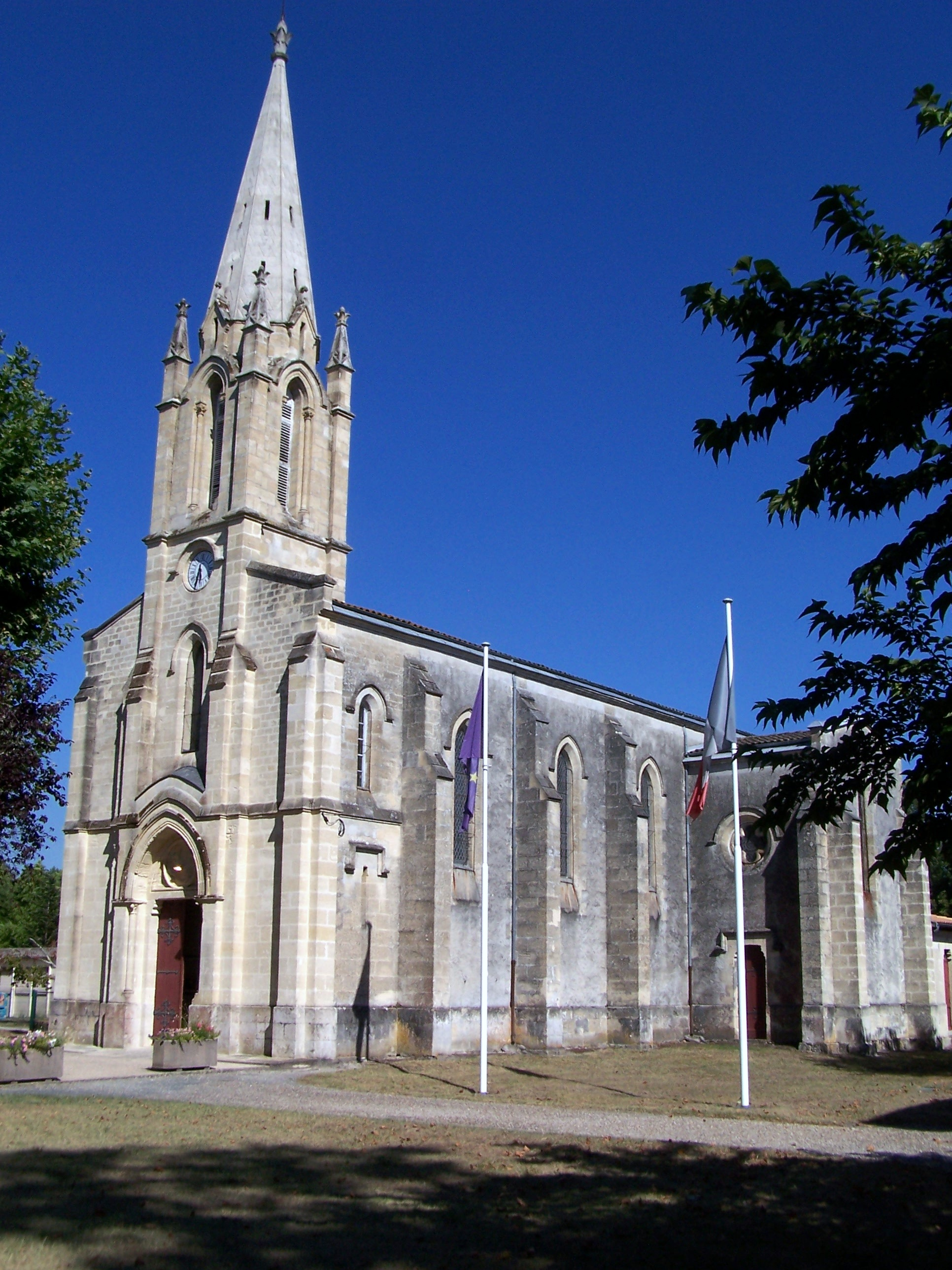 Saint Magne church of Saint-Magne (Gironde, France)